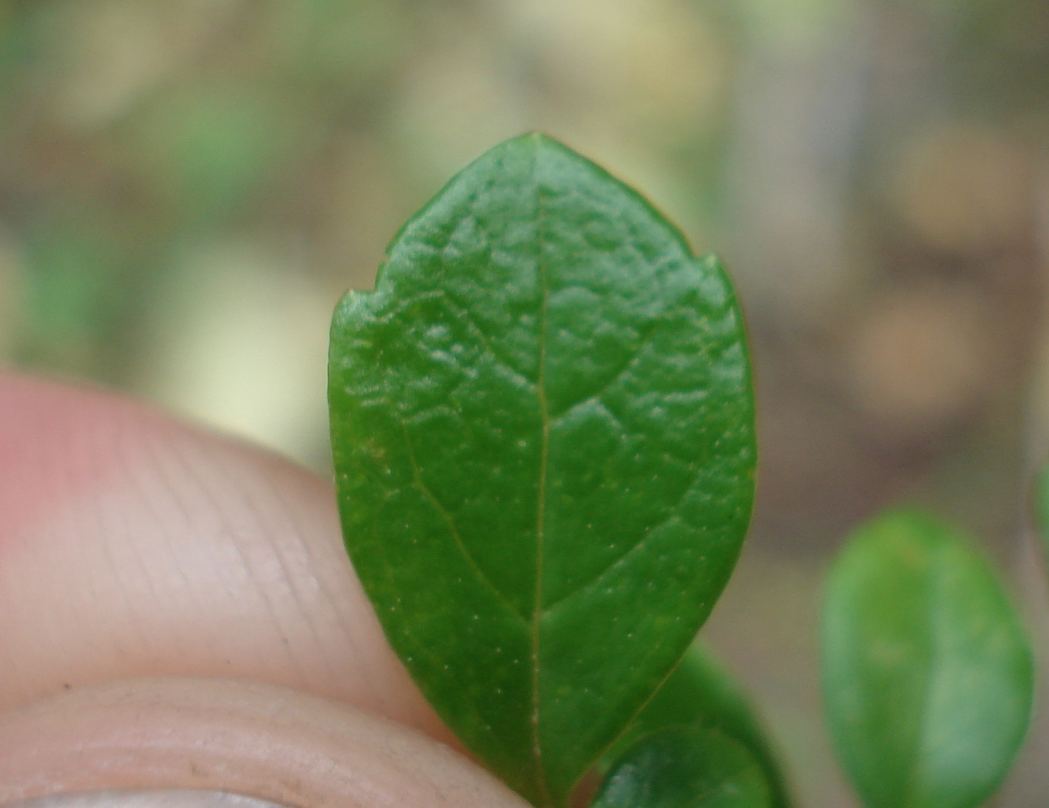 The twinflower (Linnaea borealis) leaf has a few shallow teeth on the upper half.